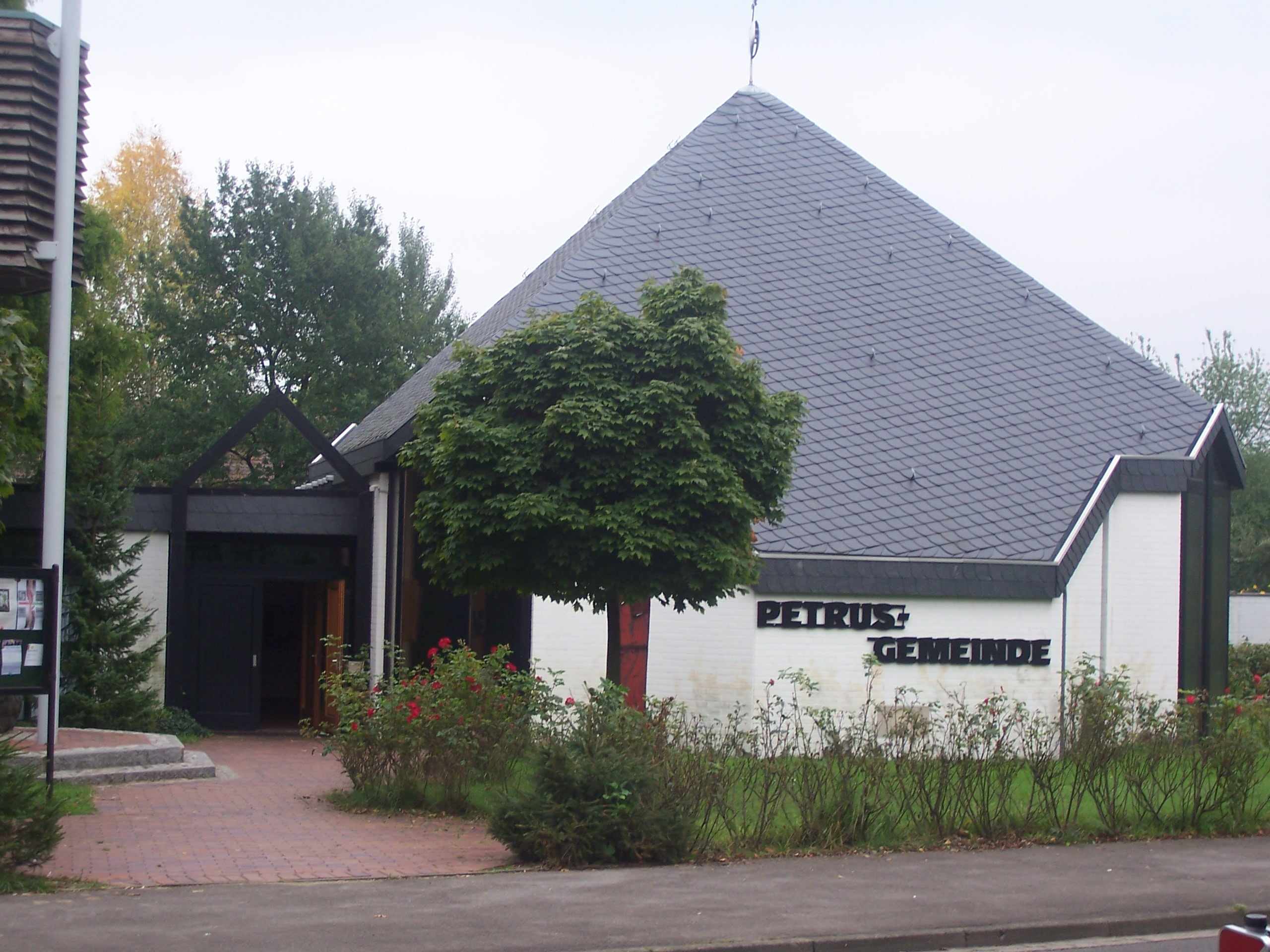 It's a picture from the Petrusgemeinde Barsinghausen in Lower-Saxony, Germany.